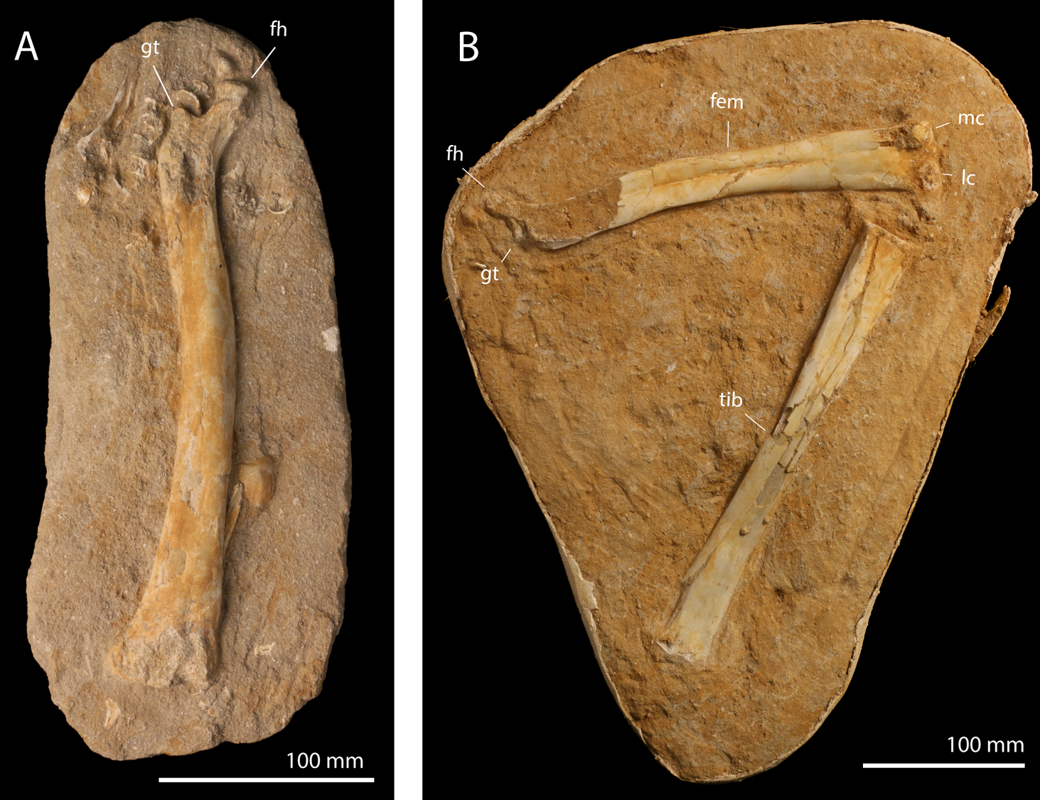 Cf. T. regalis FSAC-OB 201 and 201 hindlimb elements. (A) Right femur FSAC-OB 201 in anterior view; (B) left femur and tibia FSAC-OB 202 in posterior view. Abbreviations: fem, femur; fh, femoral head; gt, greater trochanter; lc, lateral condyle; mc, medial condyle; tib, tibia.